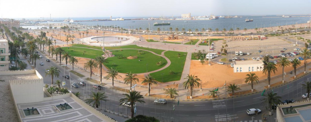 Tripoli Corniche Park and Harbour of Tripoli — from Al Kabir Hotel.